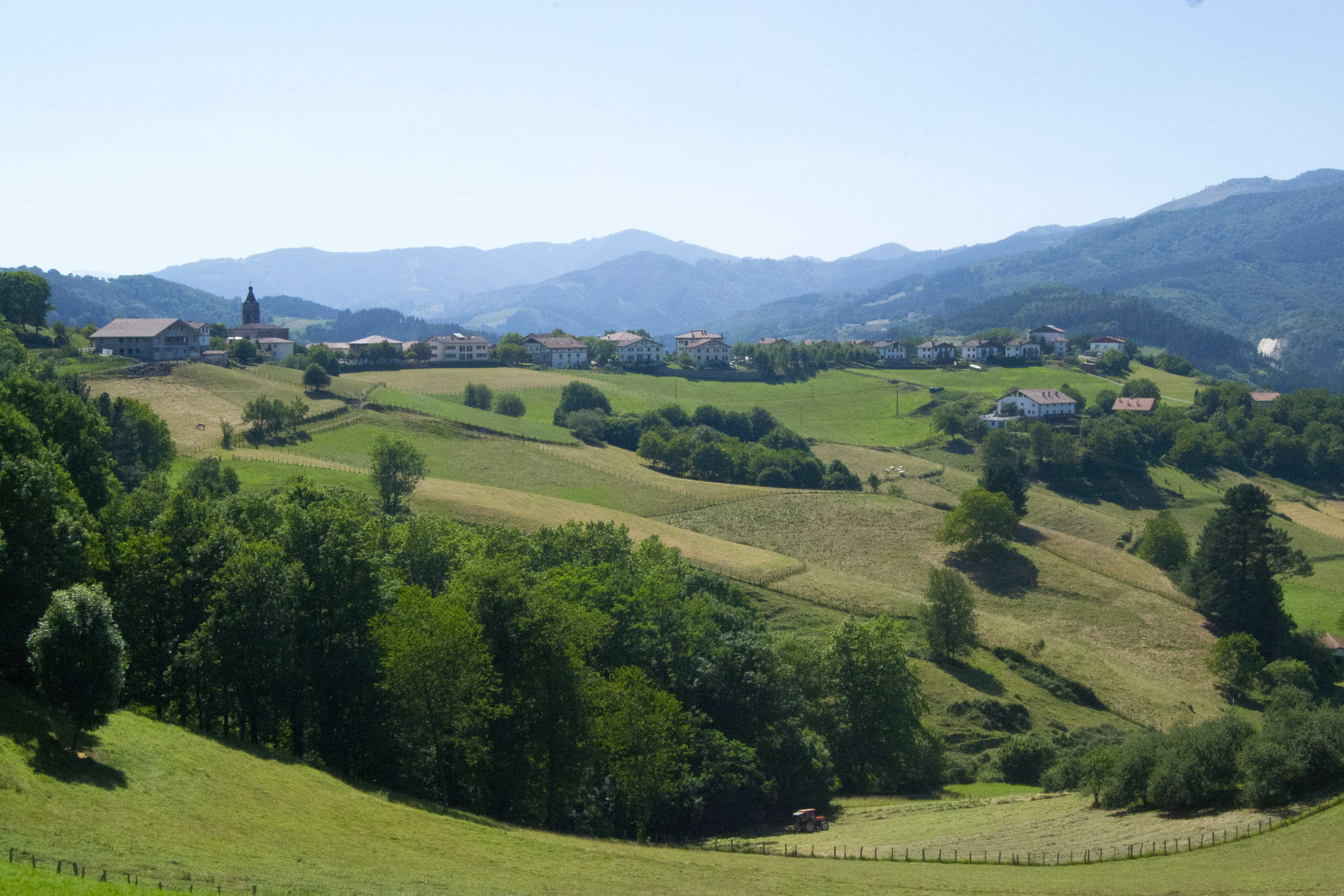 Altzo, Gipuzkoa. Basque Country.